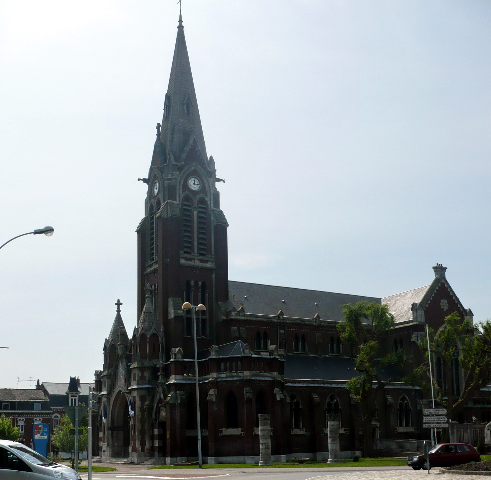 NIEPPE (France - Northdepartment) – Saint Martin church, rebuilt after the war 1914-1918